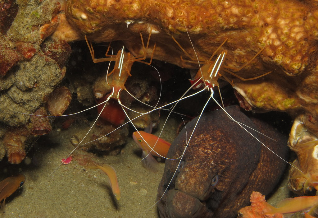 Morays and cleaner shrimp with miscellanous fish at Ponta do Ouro, Mozambique